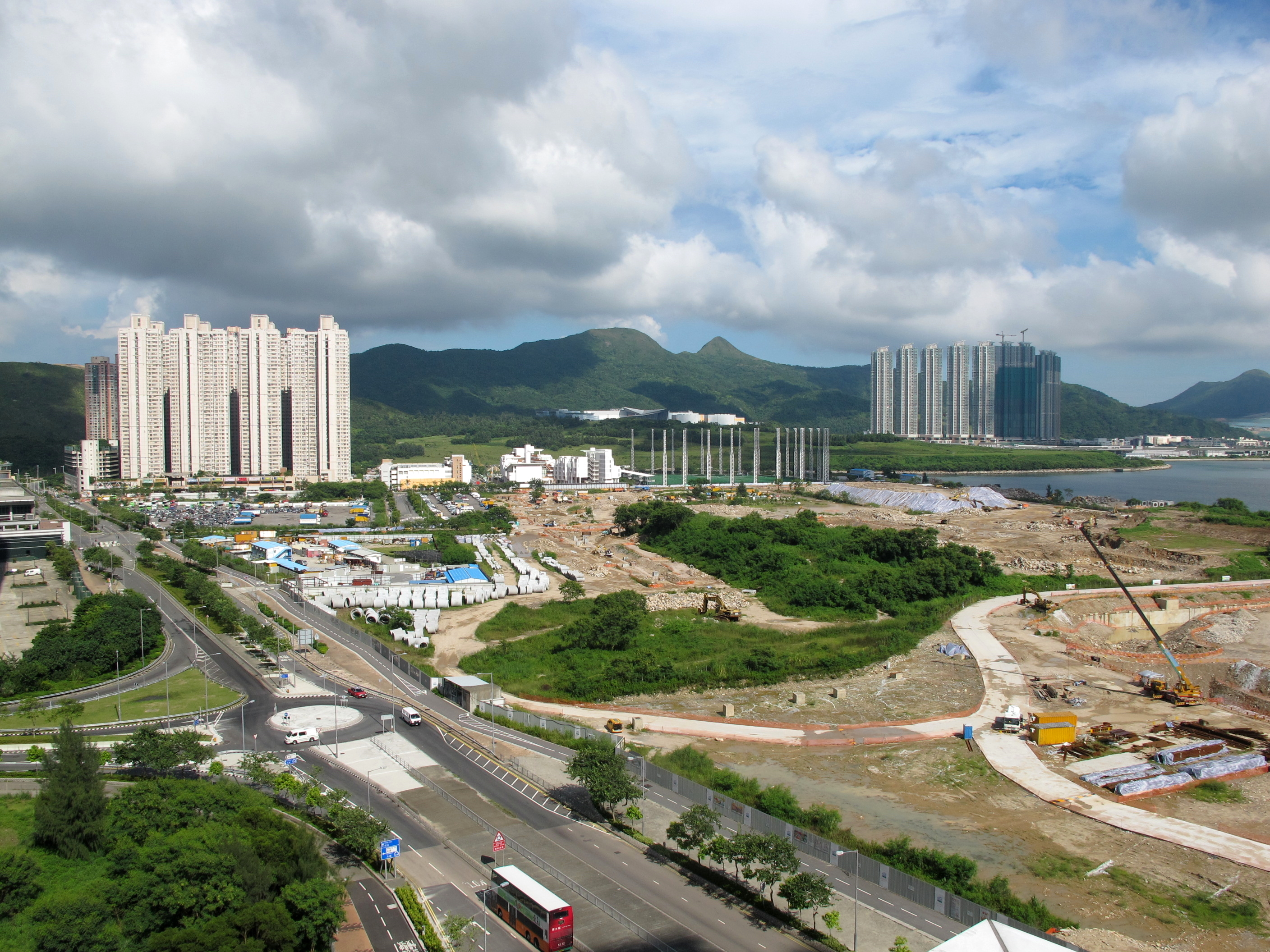 Tseung Kwan O South Overview